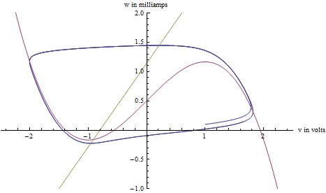 Fitzhugh-Nagumo model with I=.5, a=.7 b=.8 tau=12.5 in the phase plane.